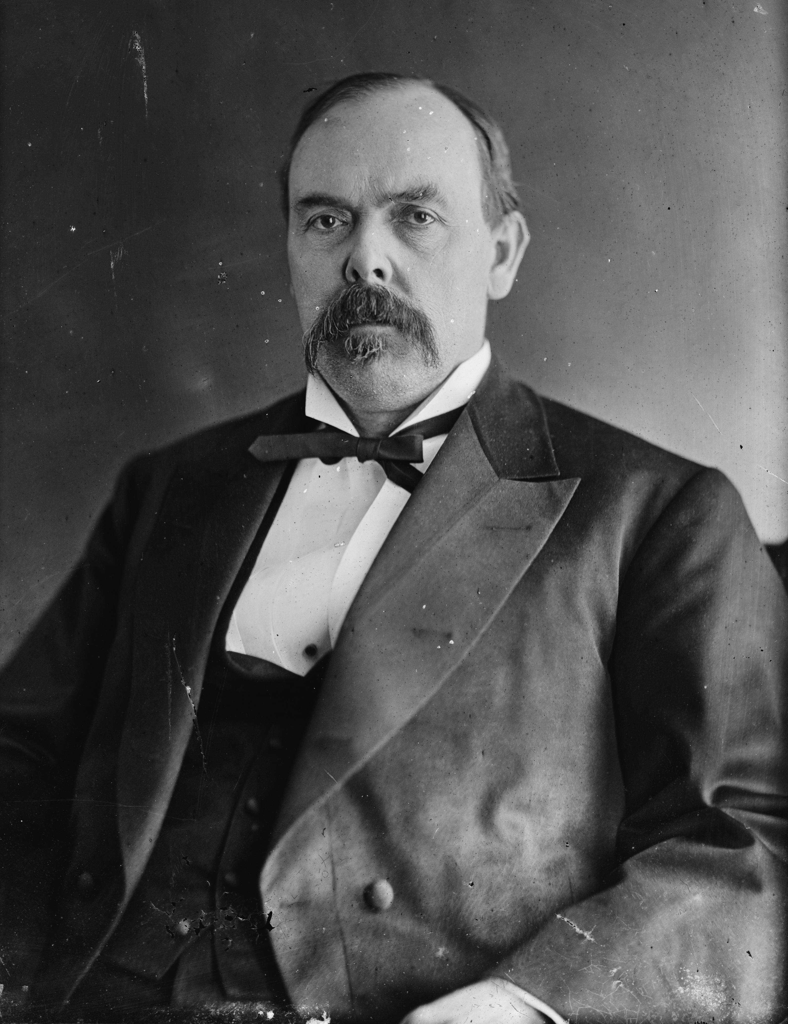 Oliver Hazard Perry Morton. Library of Congress description: "Morton, Hon. Oliver P. of Ind."